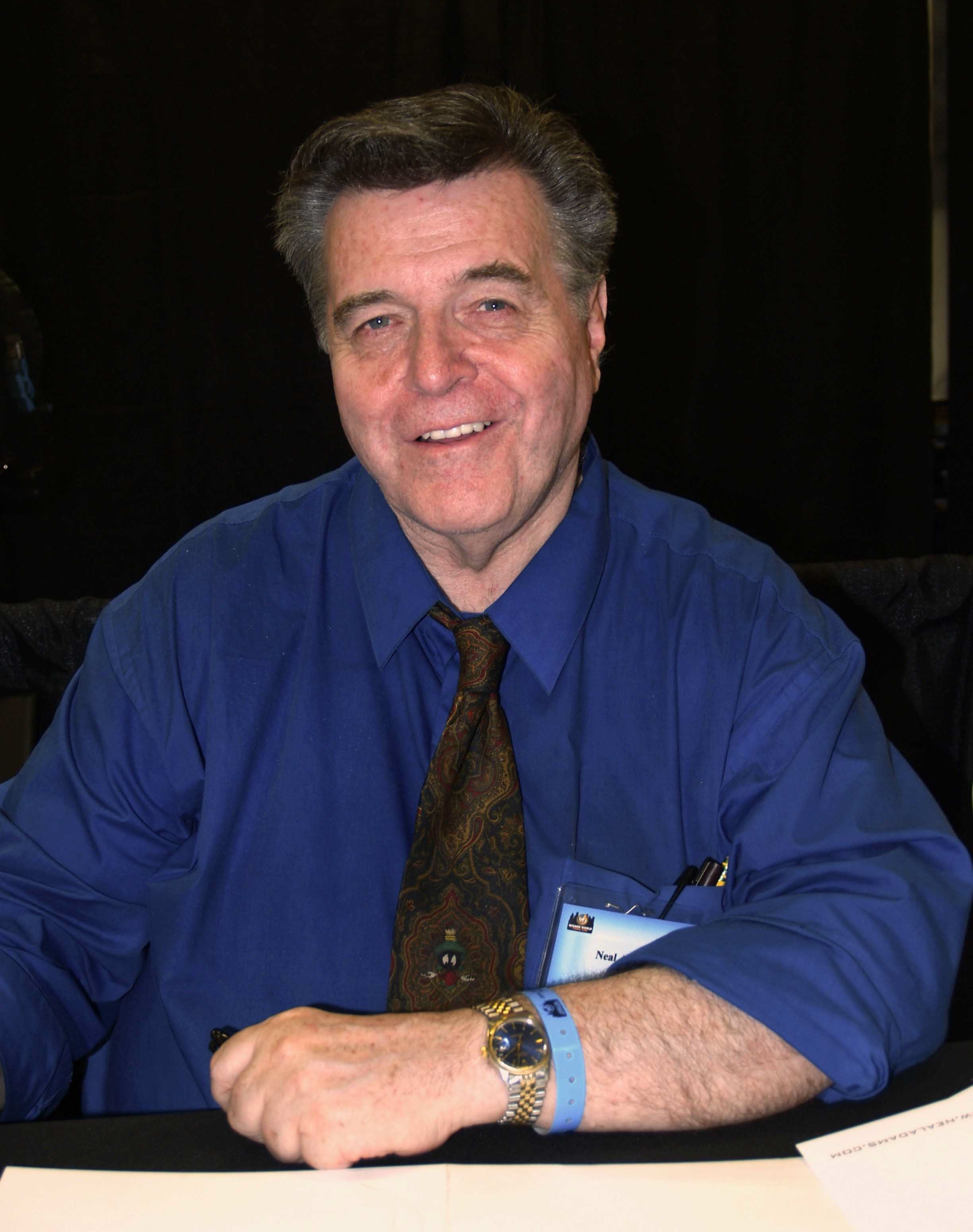 Comics creator Neal Adams at the 2013 Wizard World New York Experience Comic Con, at Pier 36 in Manhattan, June 29, 2013. This photo was created by Luigi Novi. It is not in the public domain, and use of this file outside of the licensing terms is a copyright violation.